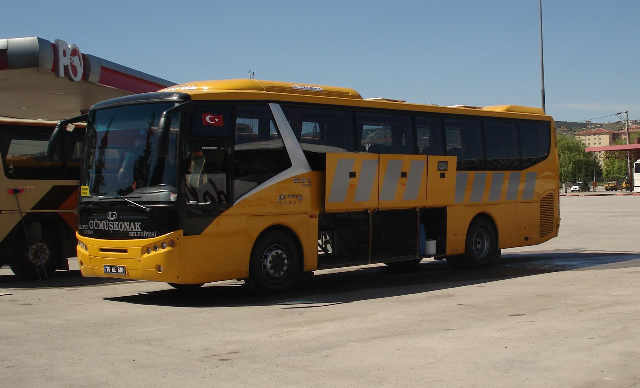 Güleryüz Cobra GL 9L bus (26 HL 610) at Eskişehir Bus Station in Turkey.